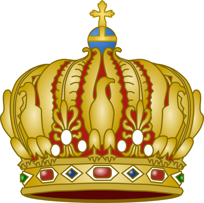 Imperial Crown of Louis Napoleon Bonaparte (Napoleon III) as depicted in the Imperial Coat of Arms of France (1852-1870). Late heraldic crown design of the First French Empire widespread during the Second French Empire Charles Normand, Armes et sceau de l'Empire français, Paris, 1804